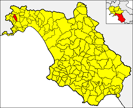 Locator map of the municipality of Pagani (red) within the Province of Salerno